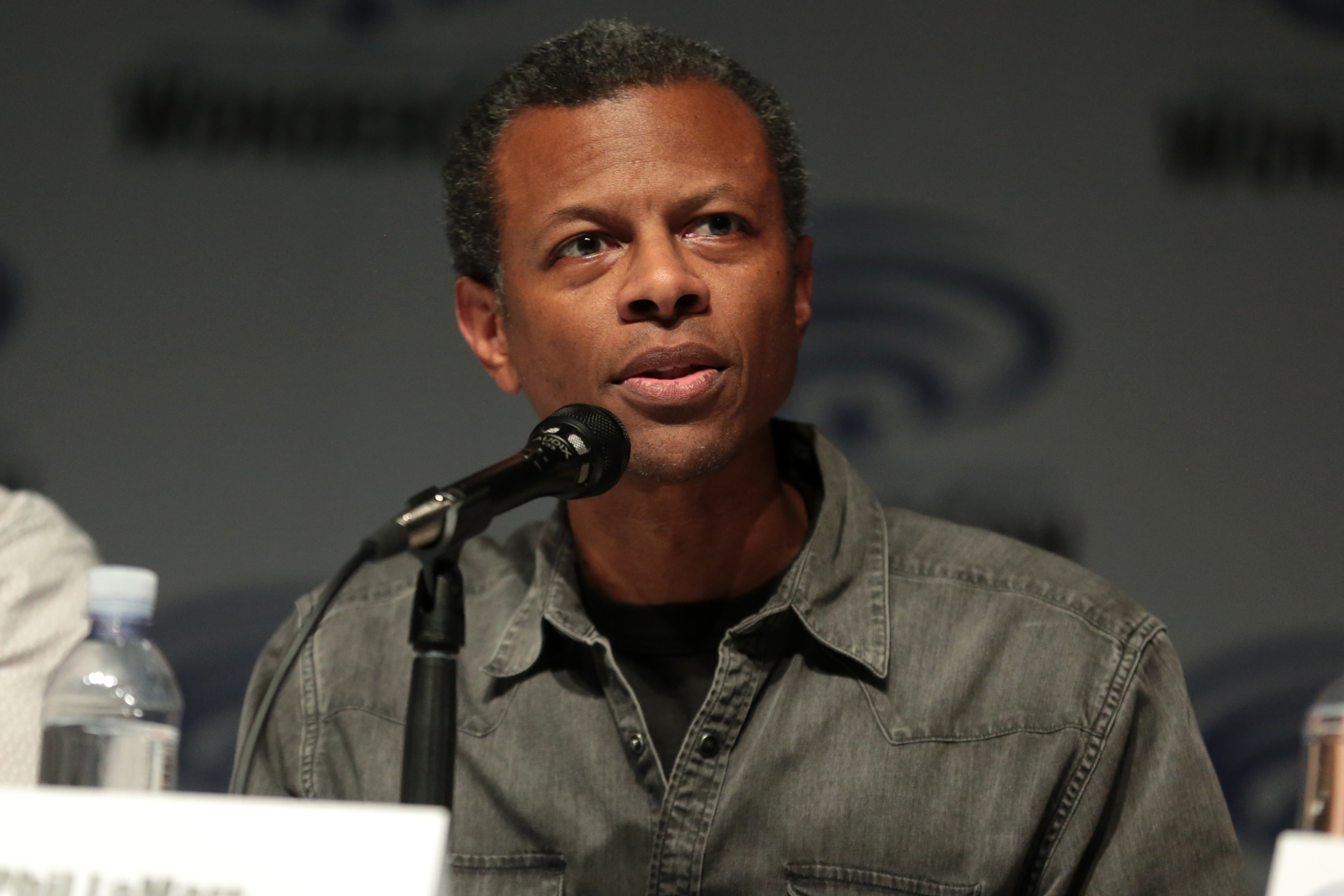 Phil LaMarr speaking at the 2017 WonderCon in Anaheim, California.